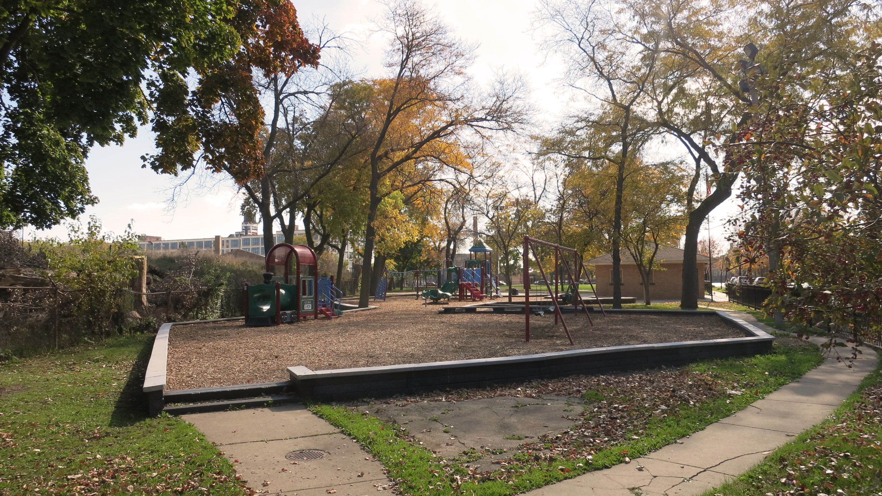 This three acre park features a junior baseball field, a softball field, a combination football / soccer field, a basketball court, plus a playground. Additionally, the park offers an ornamental community garden.